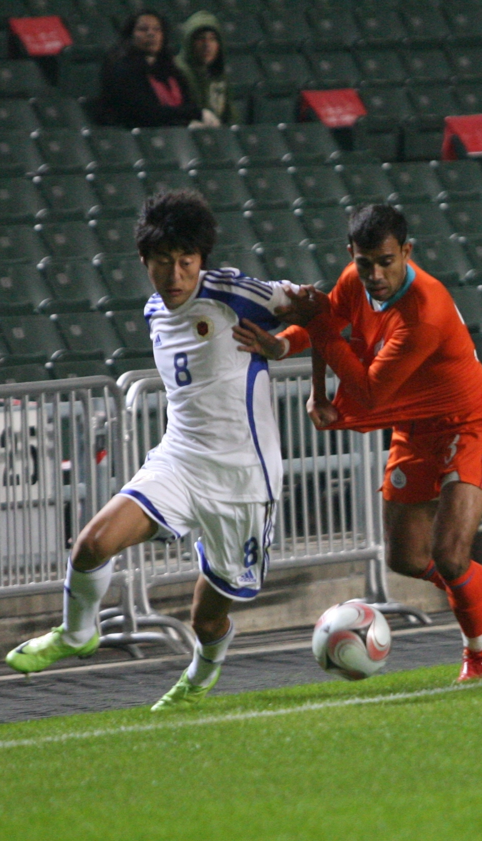 Xu De-shuai